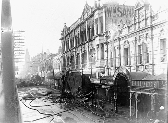 Fire in the William Sandover & Co. building, Hay Street, Perth, 24 April 1907